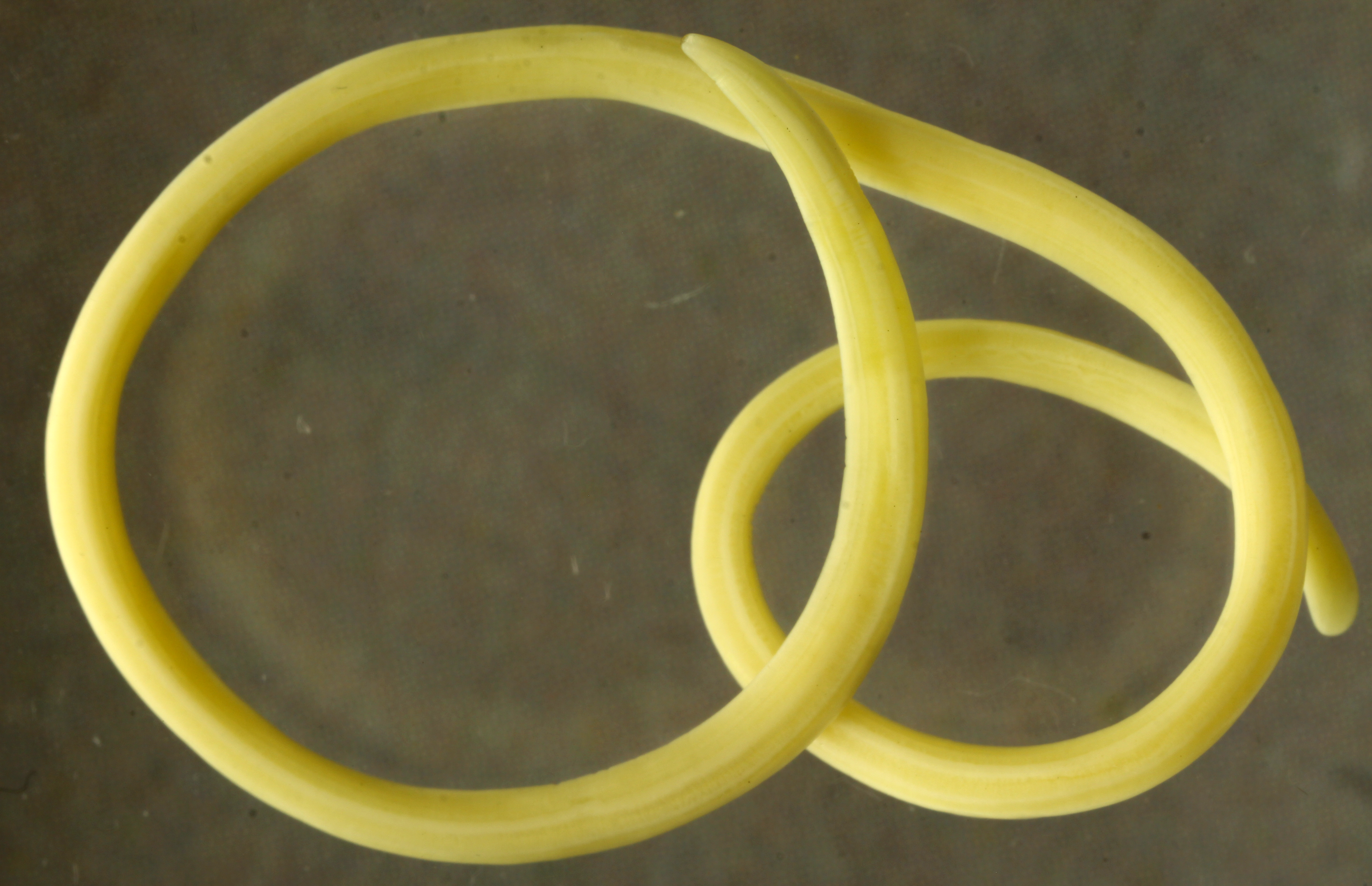 Mermithid nematode (probably Phermoermis vasparum) from the Asian Hornet Vespa velutina. Body